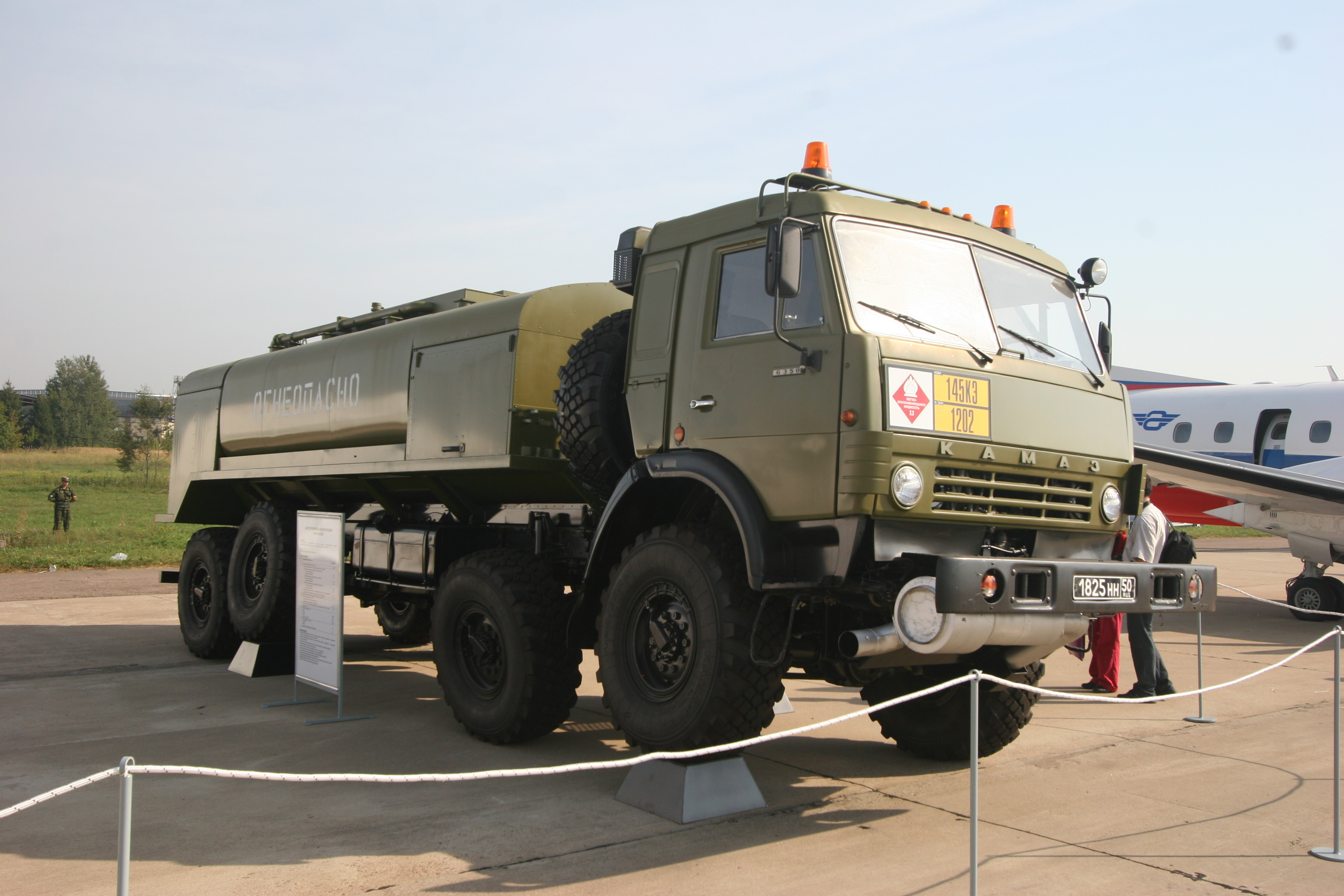 Kamaz fuel-servicing truck showing it's independent cabin - cargo bay transition structure at work. Dispalayed 2007 MAKS Airshow